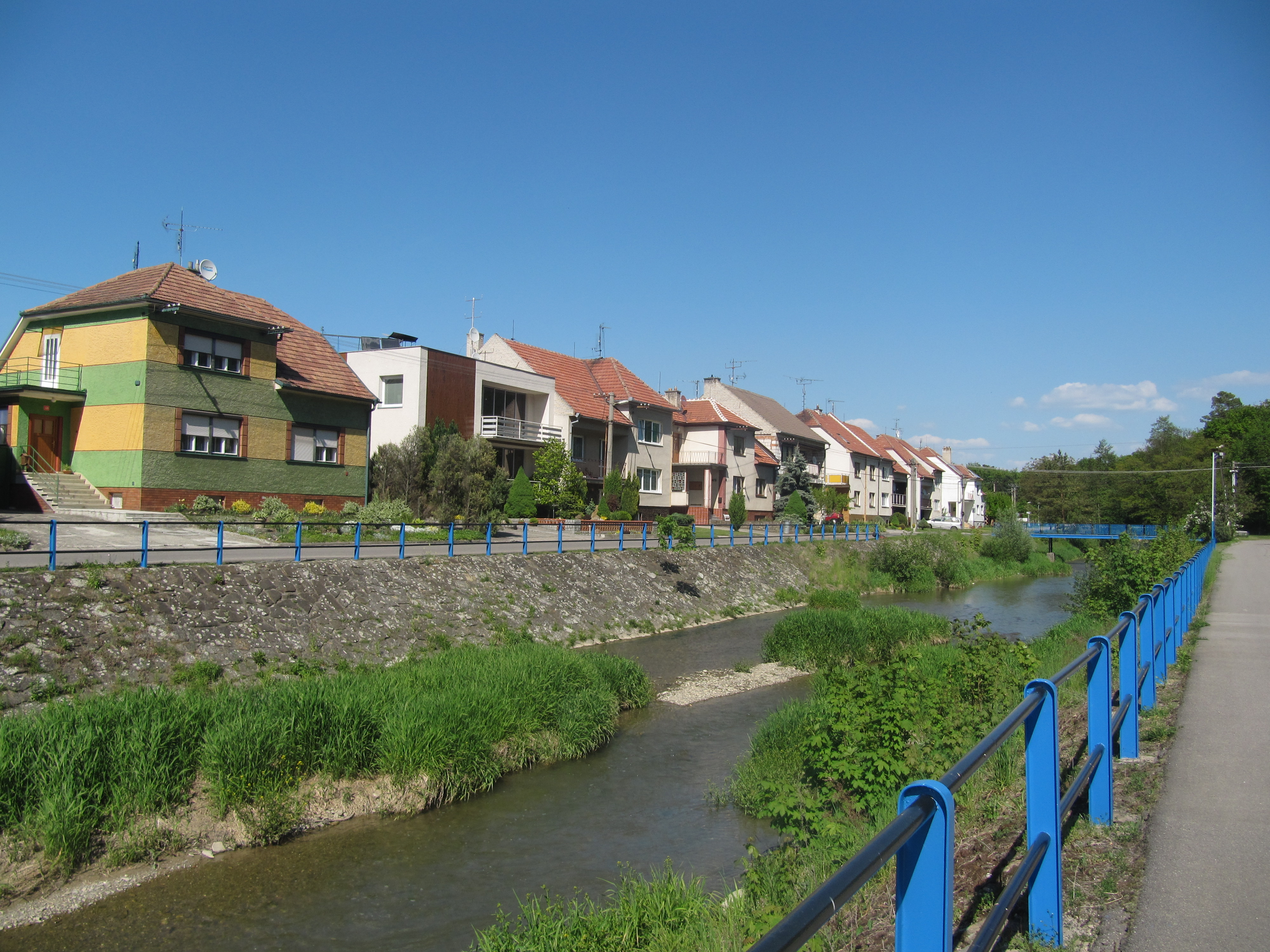 Lipov in Hodonín District, Czech Republic. Velička River.